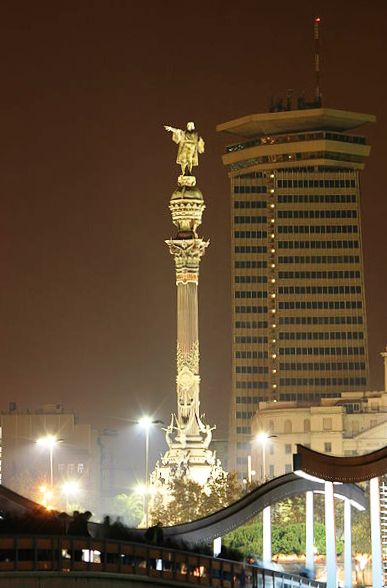 Columbus monument in Barcelona. At the back the building "Edificio Colon"